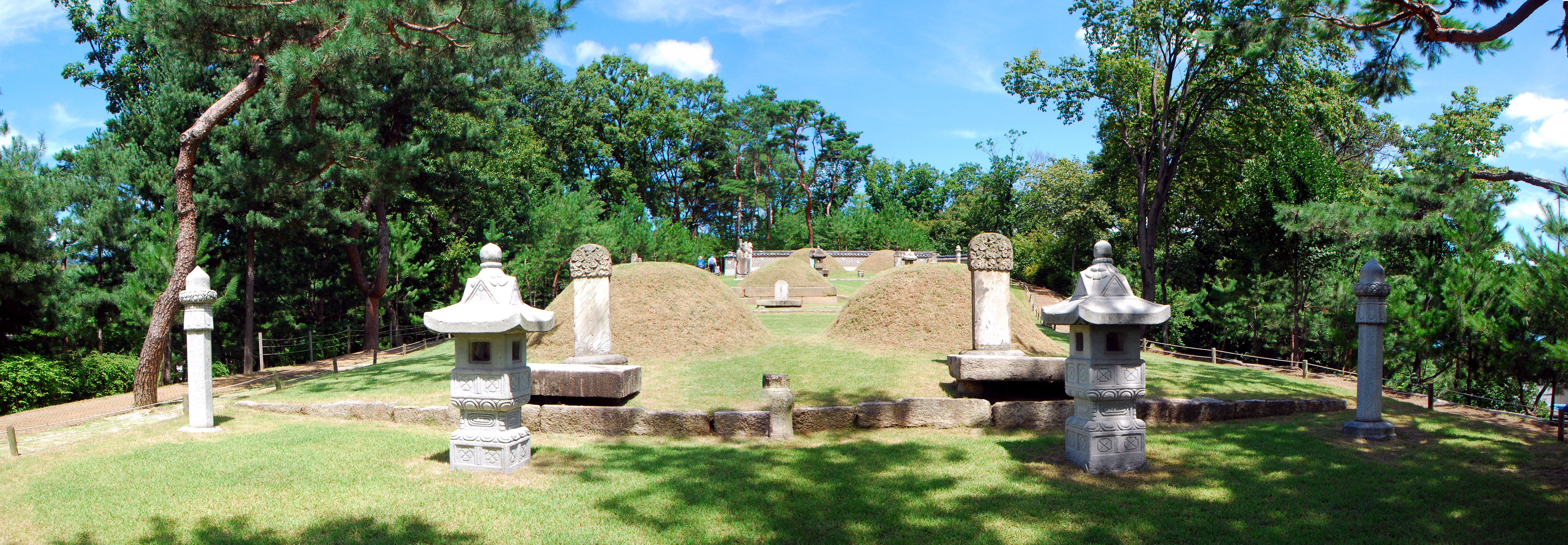 Yeonsangunmyo Grave